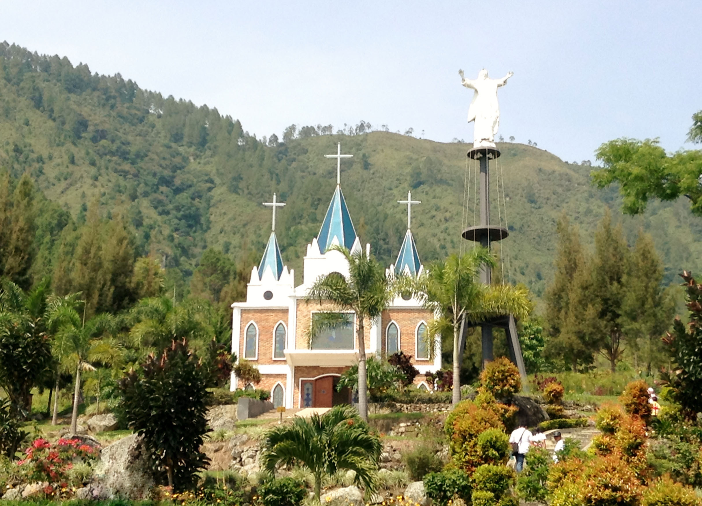 Church in Bukit Doa Getsemane Sanggam, Ambarita, SamosirBahasa Indonesia: Gereja di Bukit Doa Getsemane Sanggam, Ambarita, Simanindo, Samosir